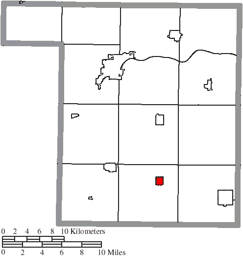 Map of the municipal and township boundaries of Henry County, Ohio, United States, as of the 2000 census, with the location of the village of Hamler highlighted. Township borders are shown only in unincorporated areas in order to differentiate incorporated and unincorporated areas more clearly.